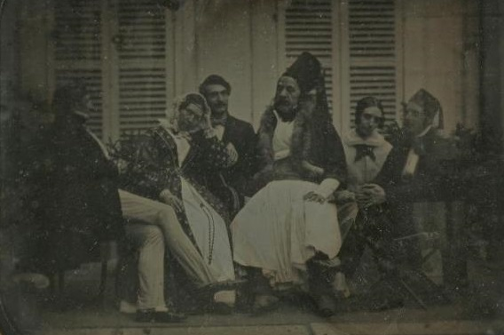 Ioannis Kolettis (centre), then ambassador of Greece to France, in Paris in 1842 with Jean-Gabriel Eynard (far left) and his wife Anna Eynard next to him.